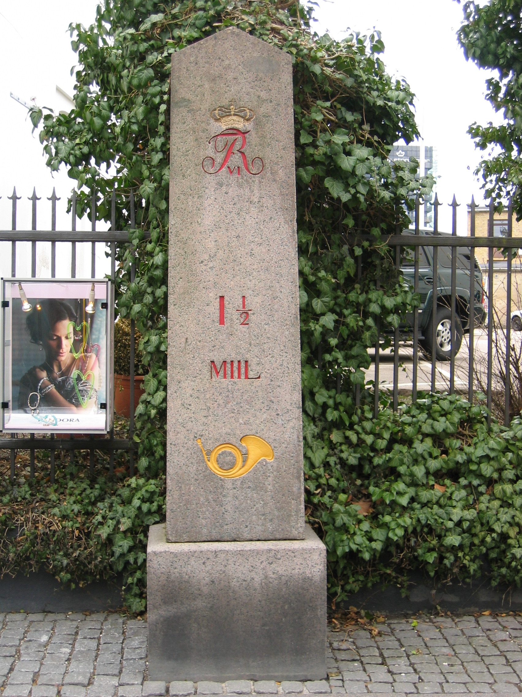 Milestone at Lyngby main street, Denmark. Errected by king Frederik VI (1808-1839)